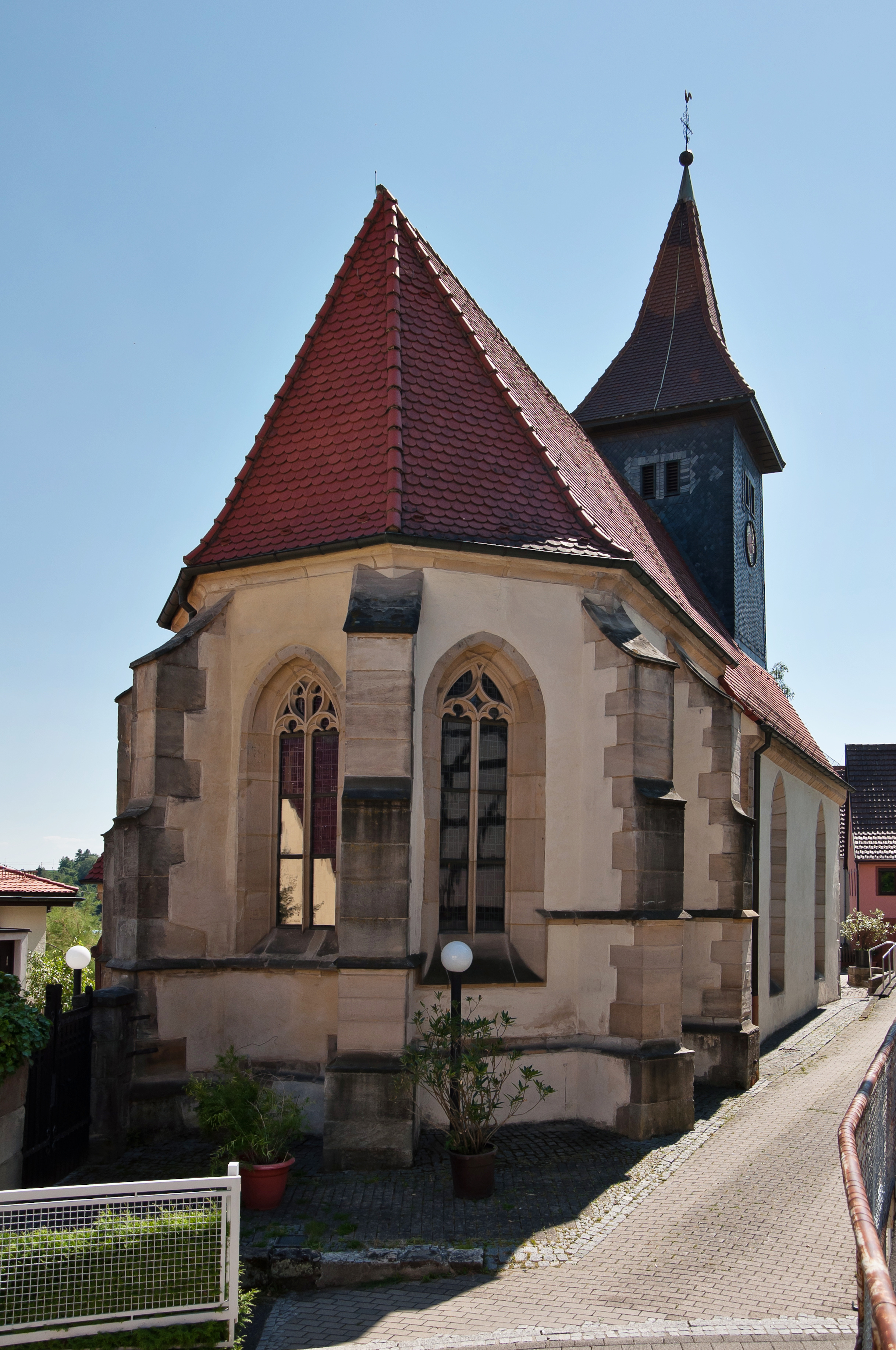 Old protestant church in Stuttgart-Heumaden